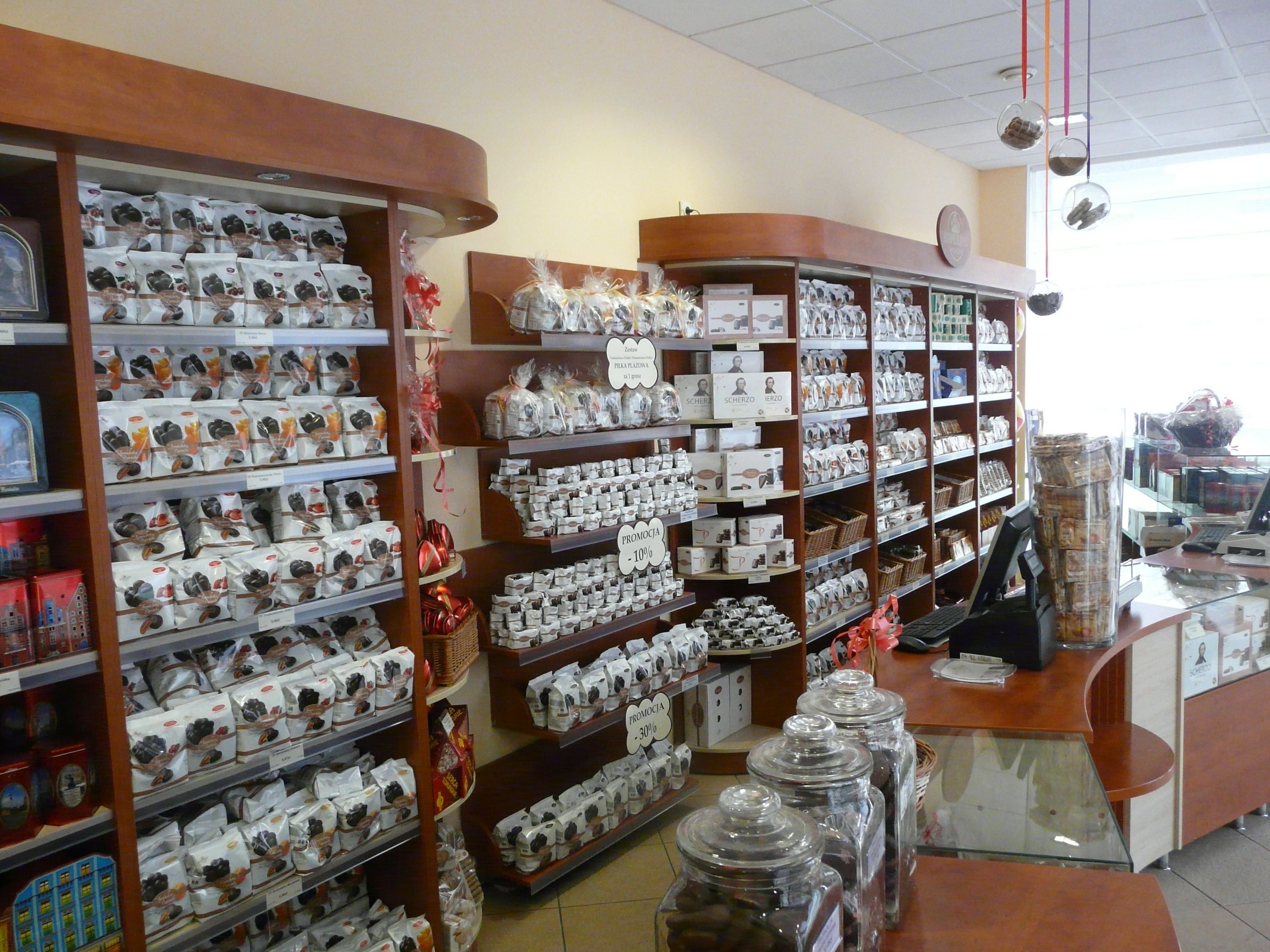 Gingerbread on display in a shop in Torun